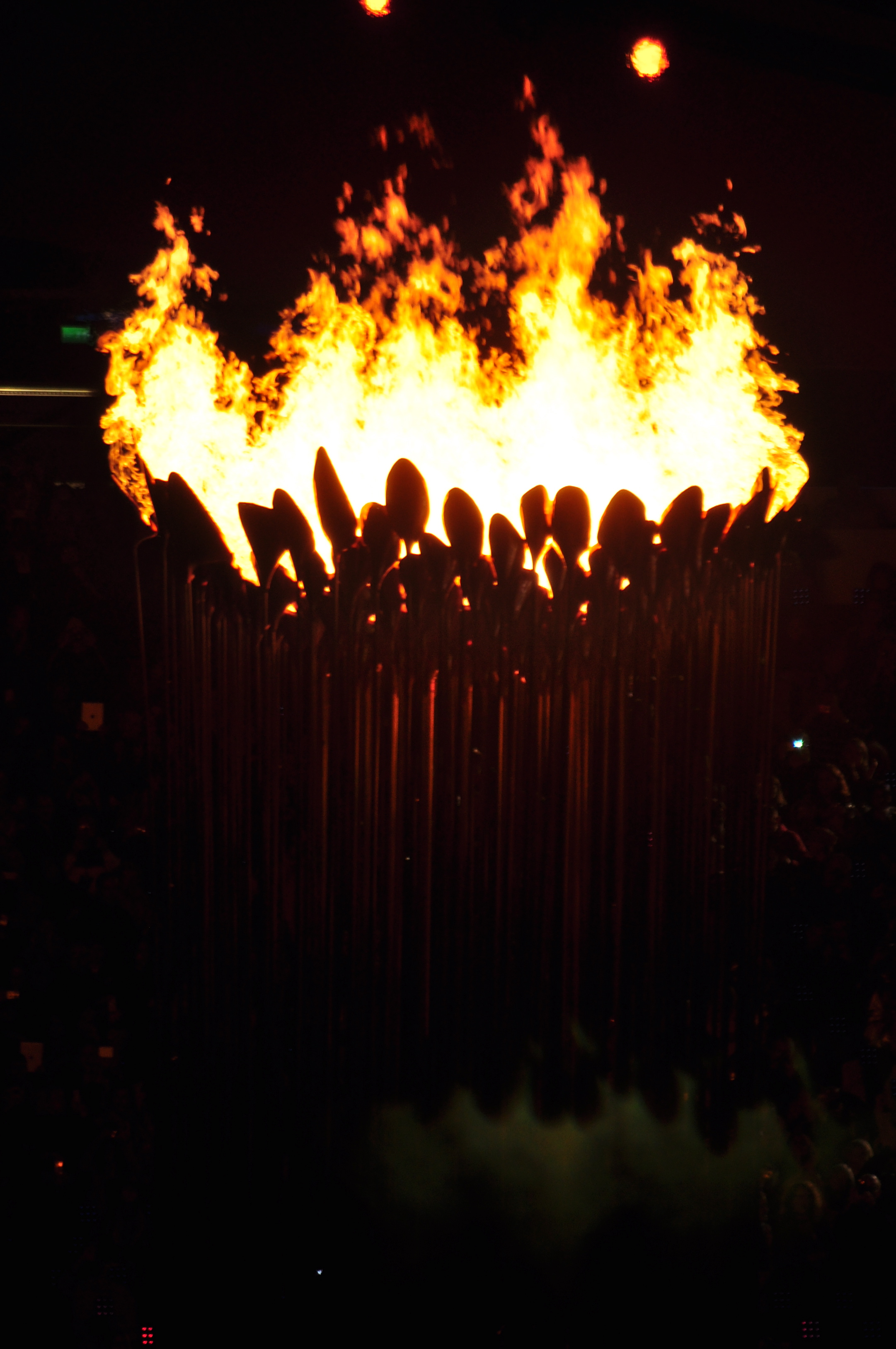 I'm awestruck at how good the paralympic games have been. So many amazing athletes from all over the world. I was lucky enough to be at the opening ceremony, and have been glued to the telly watching the games!